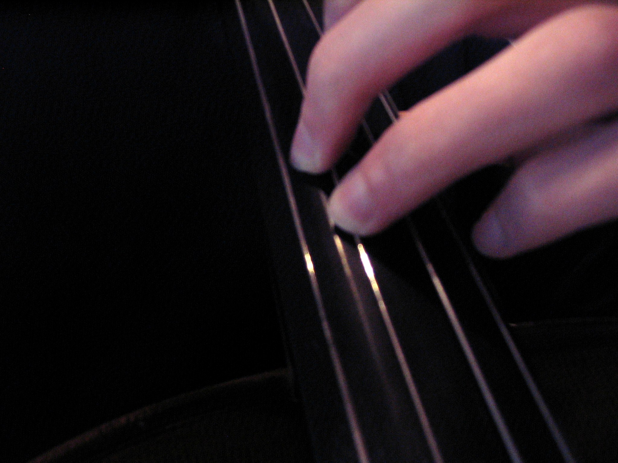 A cellist performing a buzz pizzicato. This is a technique used occasionally in contemporary compositions.